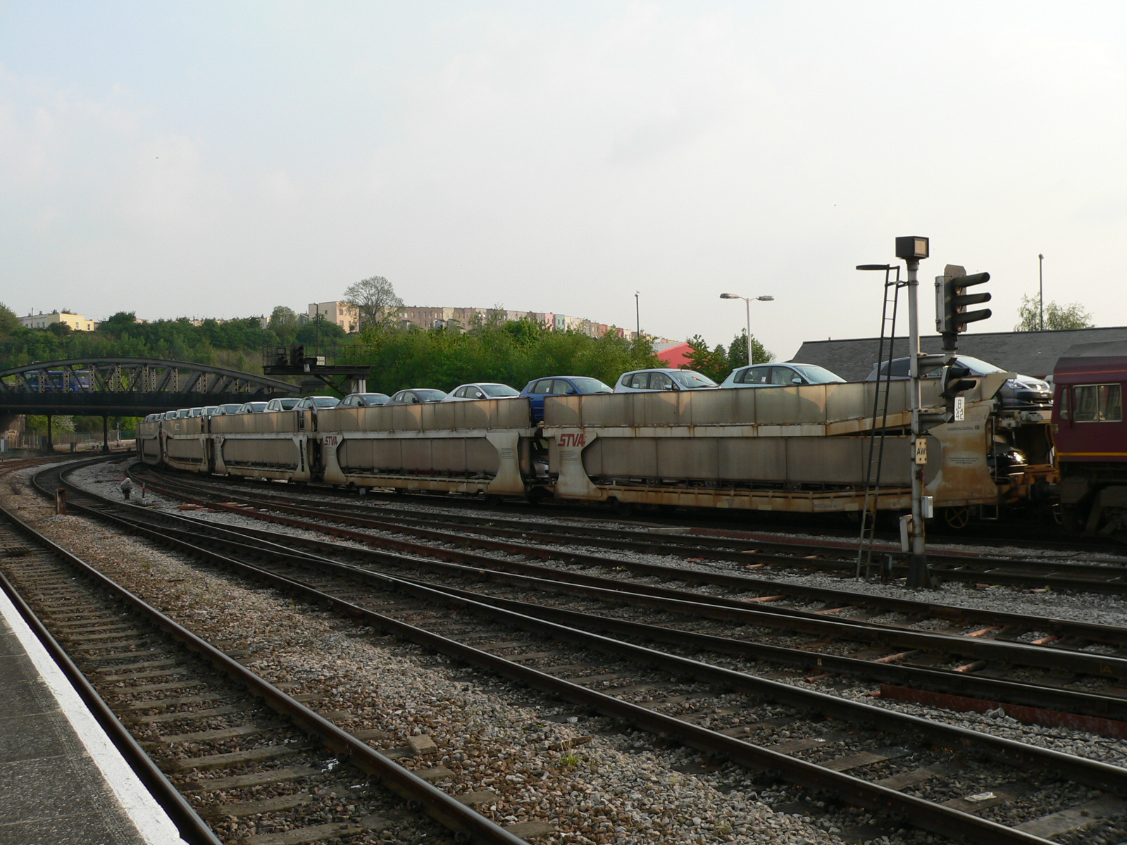 A rake of car transporting wagons being hauled northbound through Bristol Temple Meads en route from Portbury Dock.